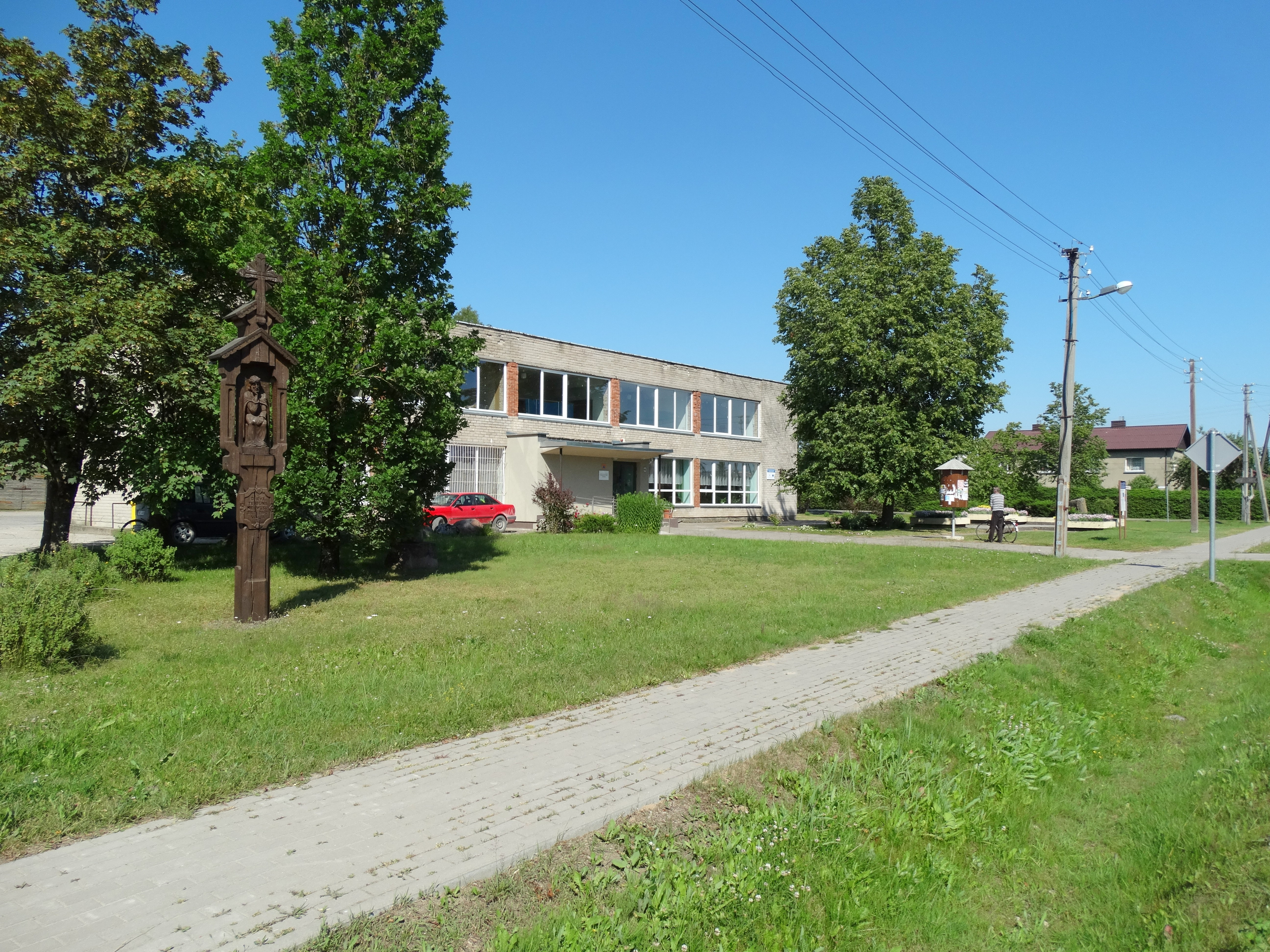 Žlibinai, Plungė District, Lithuania